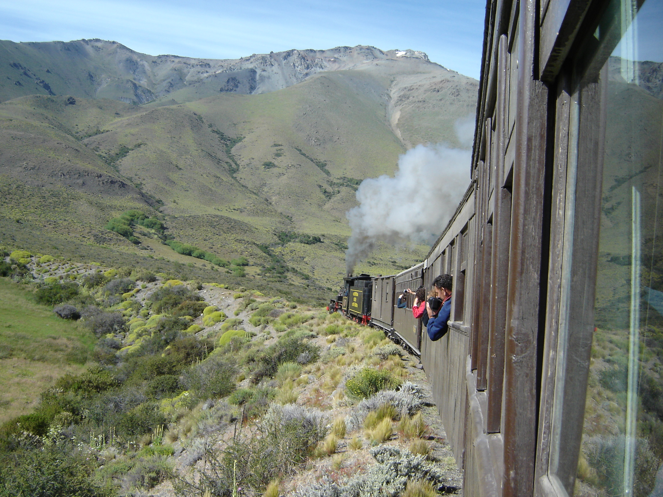 Old Patagonian Express "La Trochita", taken in a trip from Esquel to Nahuel Pan, Chubut, Argentina. Province: ISO 3166-2: AR-U. FIPS 10-4: AR04. INDEC: 26. Department: Futaleufú Department. (Futaleufú Department. DD: 43°05′00″S 71°25′00″W / 43.0833333°S 71.4166667°W DMS: 43°05′00″S 71°25′00″W / 43.0833333°S 71.4166667°W)